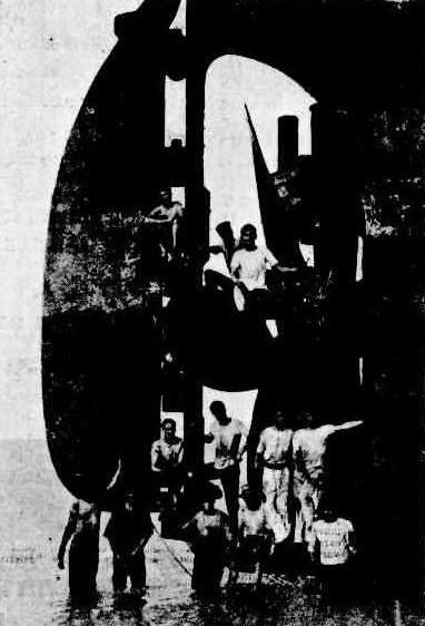 Propeller and crew members of SS Koombana, taken while the vessel was alongside the jetty at Broome, Western Australia at low tide.